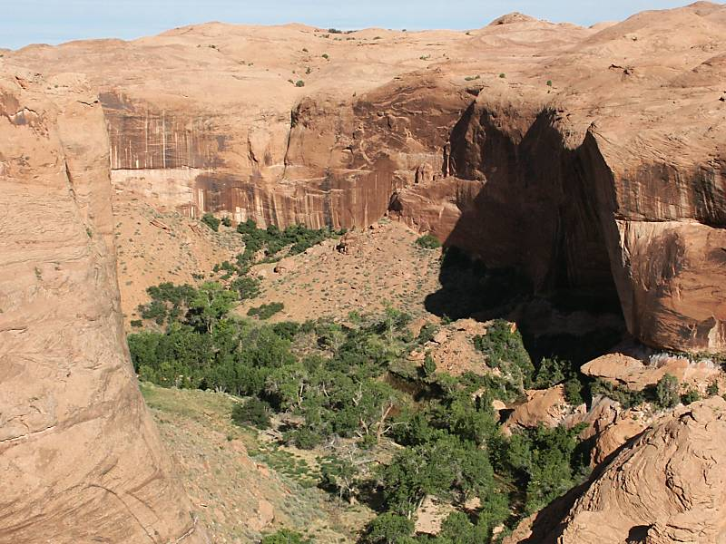 View into the main canyon of Coyote Gulch, looking northwest from a point on the rim above Coyote Natural Bridge.